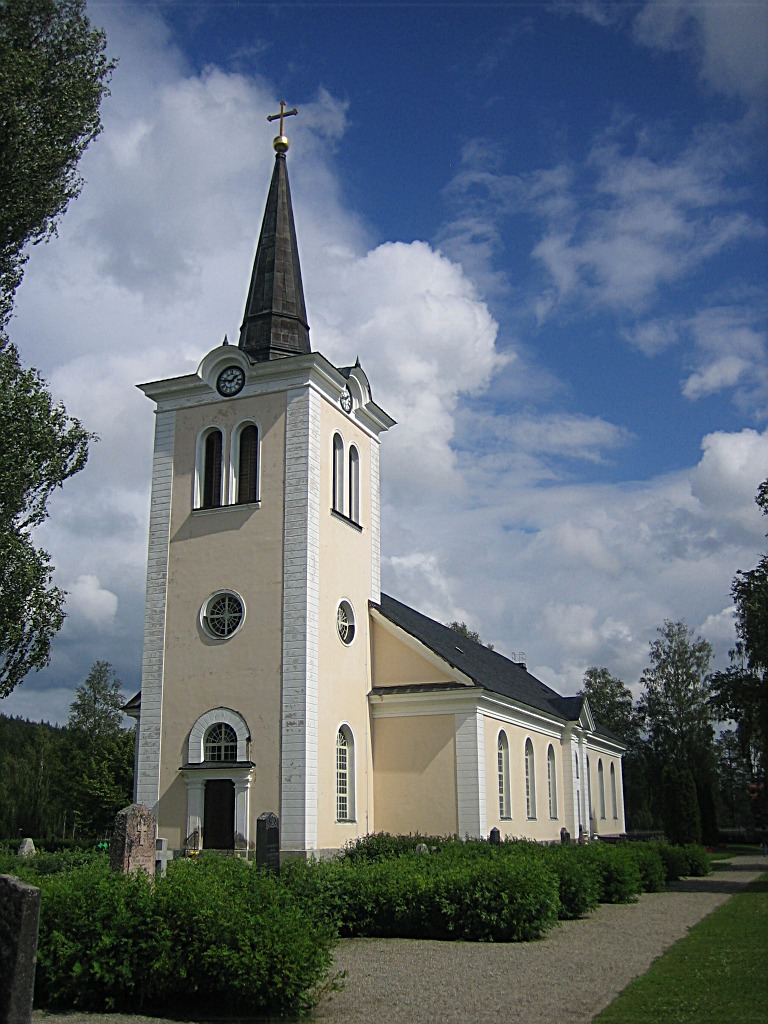 Revsund church